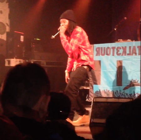 Young Roddy performing "1st Place" in Chicago, Wrigleyville on Aug. 8th, 2015